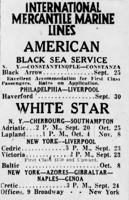 Advertisement for the sailing of SS Black Arrow to Near East destinations. The return trip reportedly made Black Arrow the first ship to return to the United States from Constantinople since the outbreak of World War One.